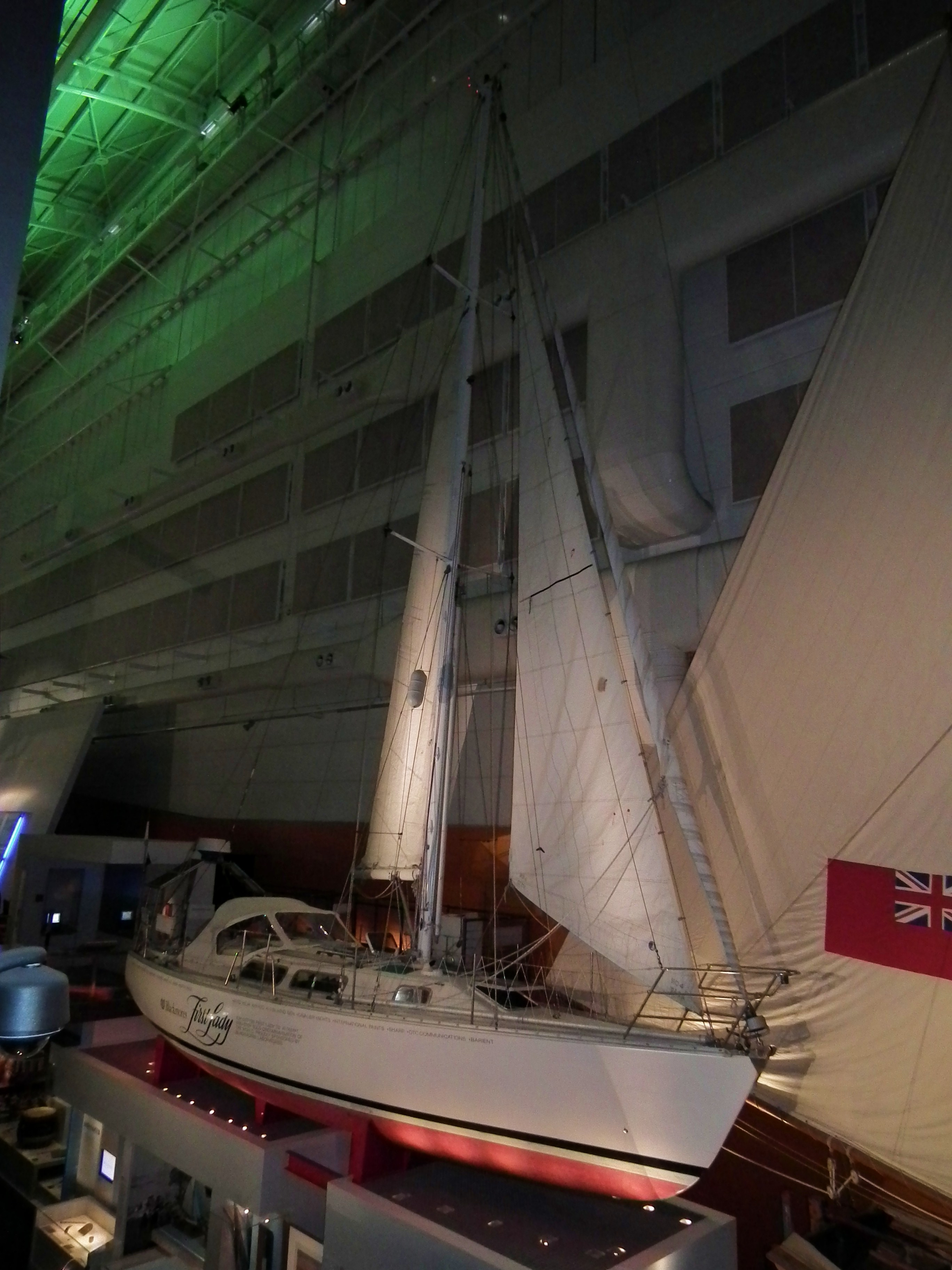 Blackmore's First Lady, the Cavalier 37 sailing yacht sailed by Kay Cottee on her voyage when she became the first woman to circumnavigate the World solo non-stop. Now at the National Maritime Museum, Darling Harbour, New South Wales.